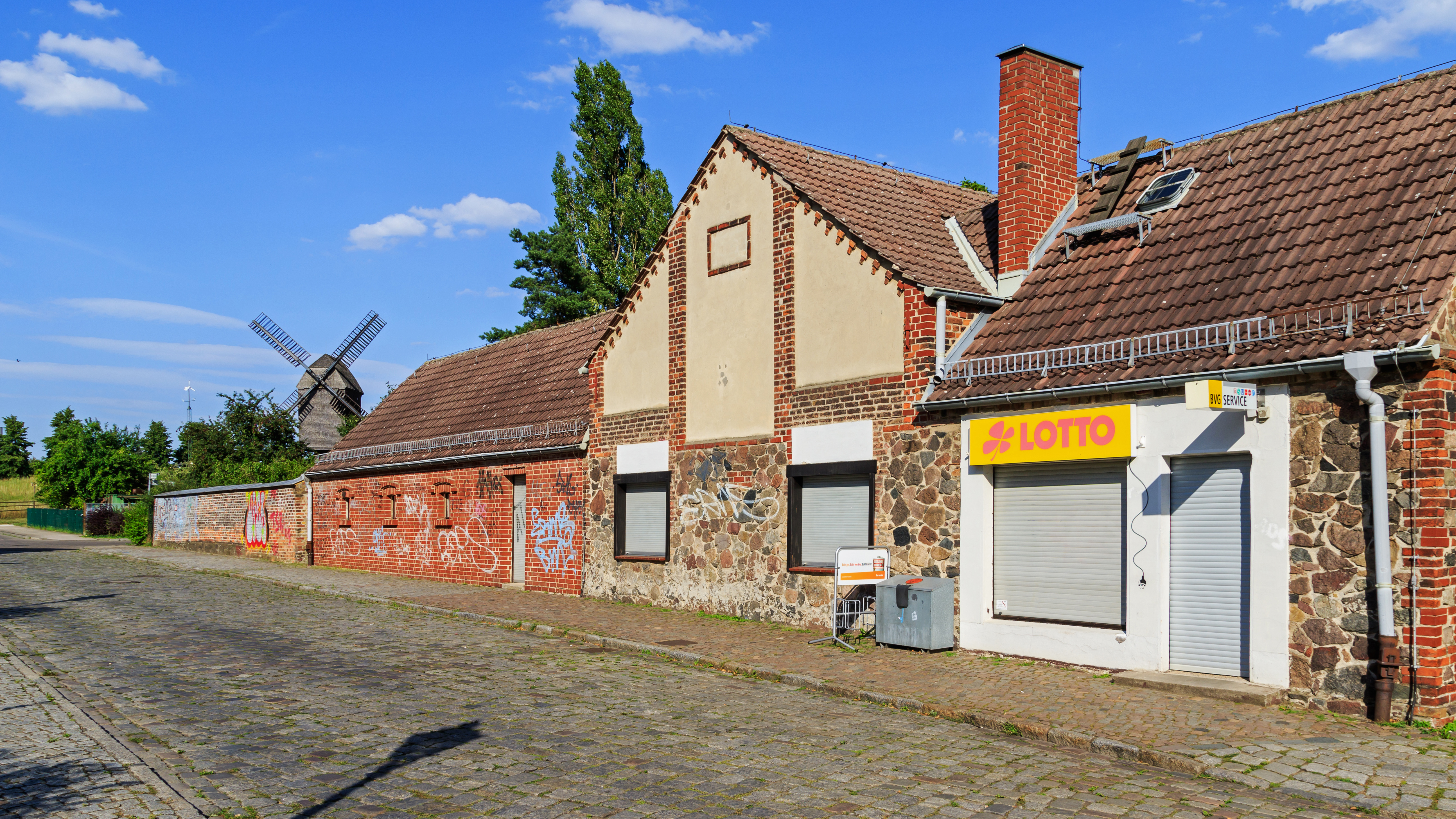 Old brick architecture in Alt-Marzahn, Berlin